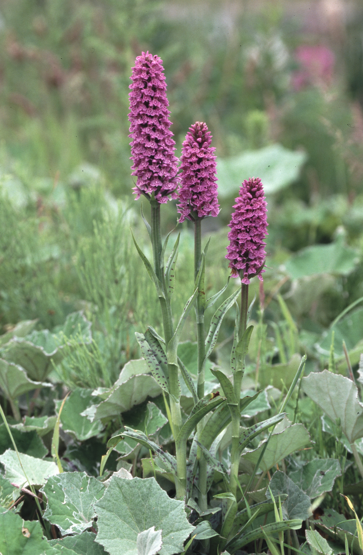 Dactylorhiza fuchsii x purpurella hybrid, Belfast Harbour Reserve, Northern Ireland